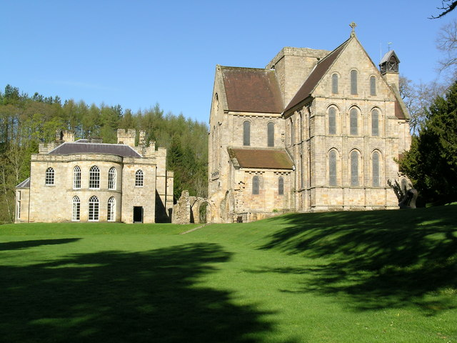 Brinkburn priory and hall taken from Brinkburn Mill